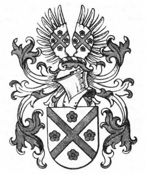 Andreae coat of arms